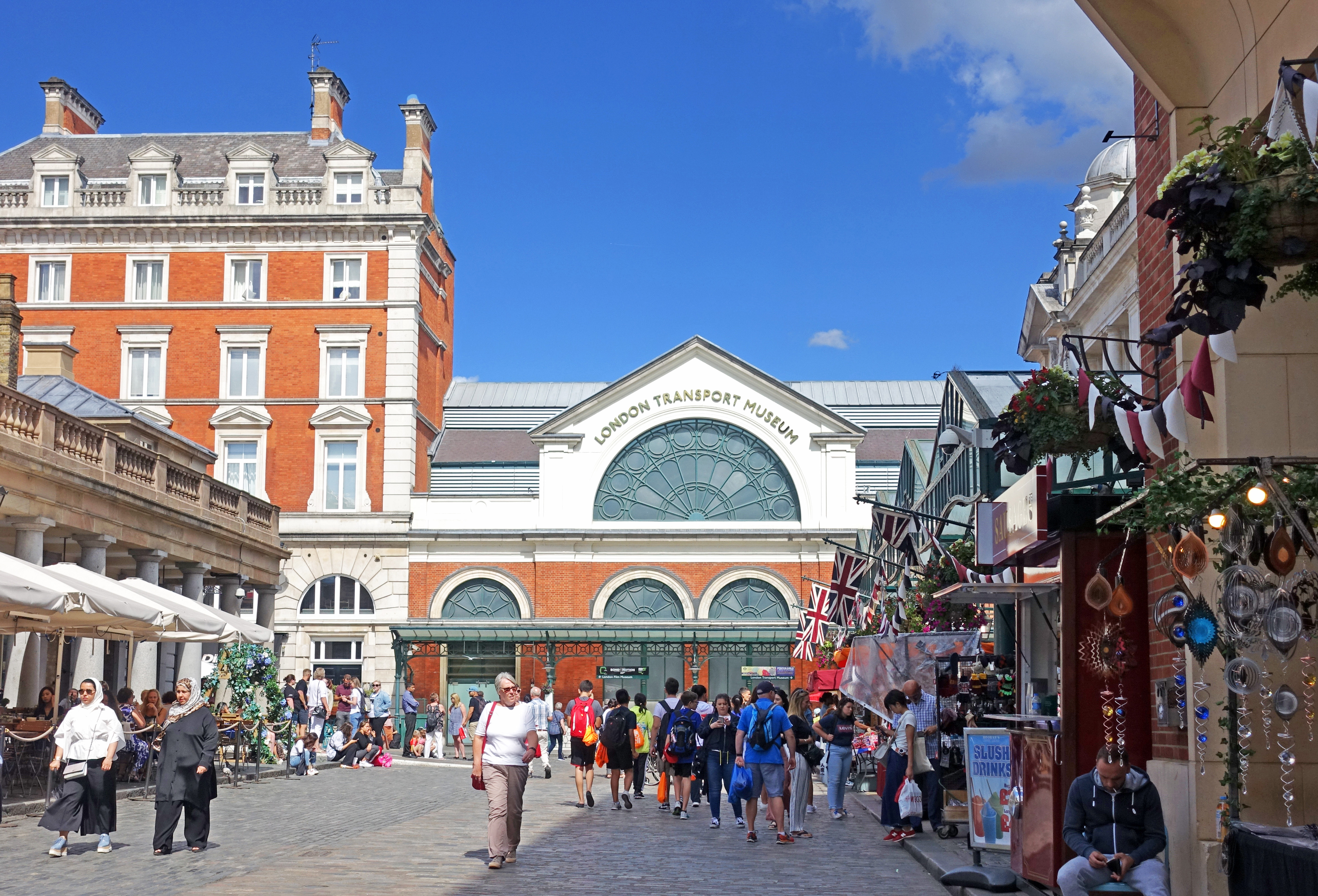 London Transport Museum, London. Wikidata has entry Q1541098 with data related to this item.